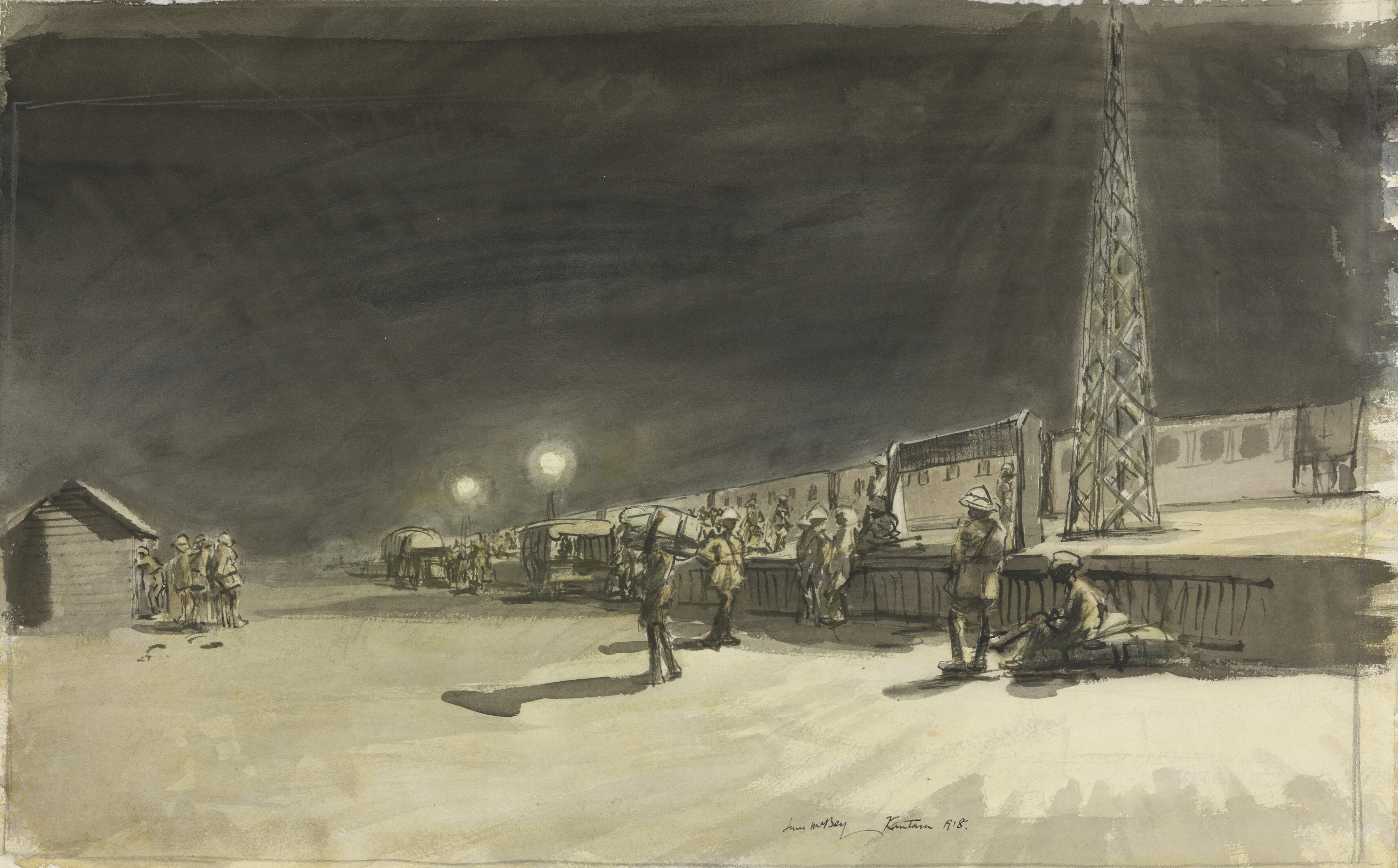 Kantara East. the Officers' Train image: a view of a station at Kantara in Egypt after dark. Several soldiers and officers are gathered by the raised platform, with one man carrying a large bundle. Further back two trucks are parked by the side of the platform, ready to take men and baggage. There is a train at the station and other men on the platform itself, with a small wooden hut to the left, outside which is another gathering of men.